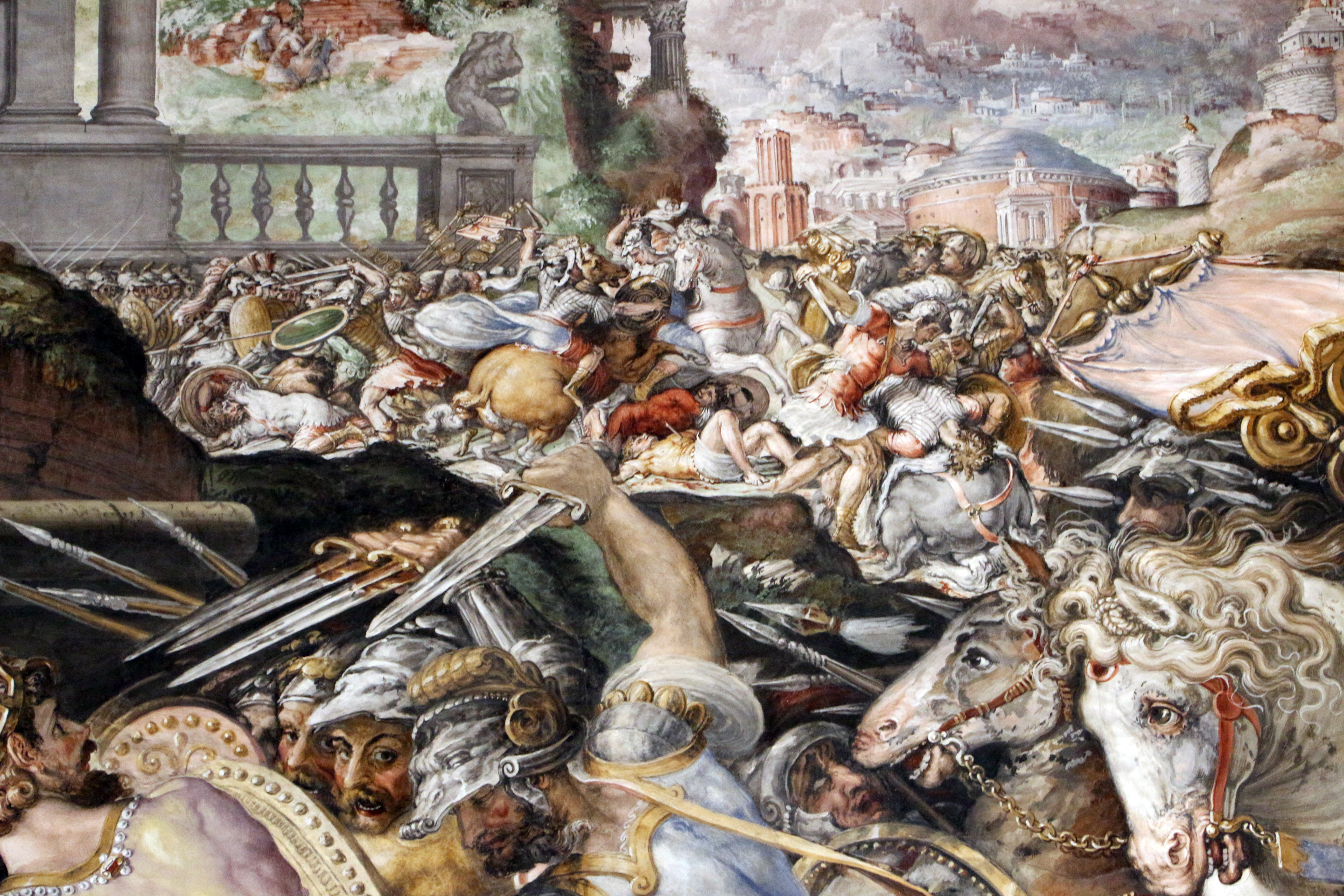 Stories of Marcus Furius Camillus by Francesco Salviati